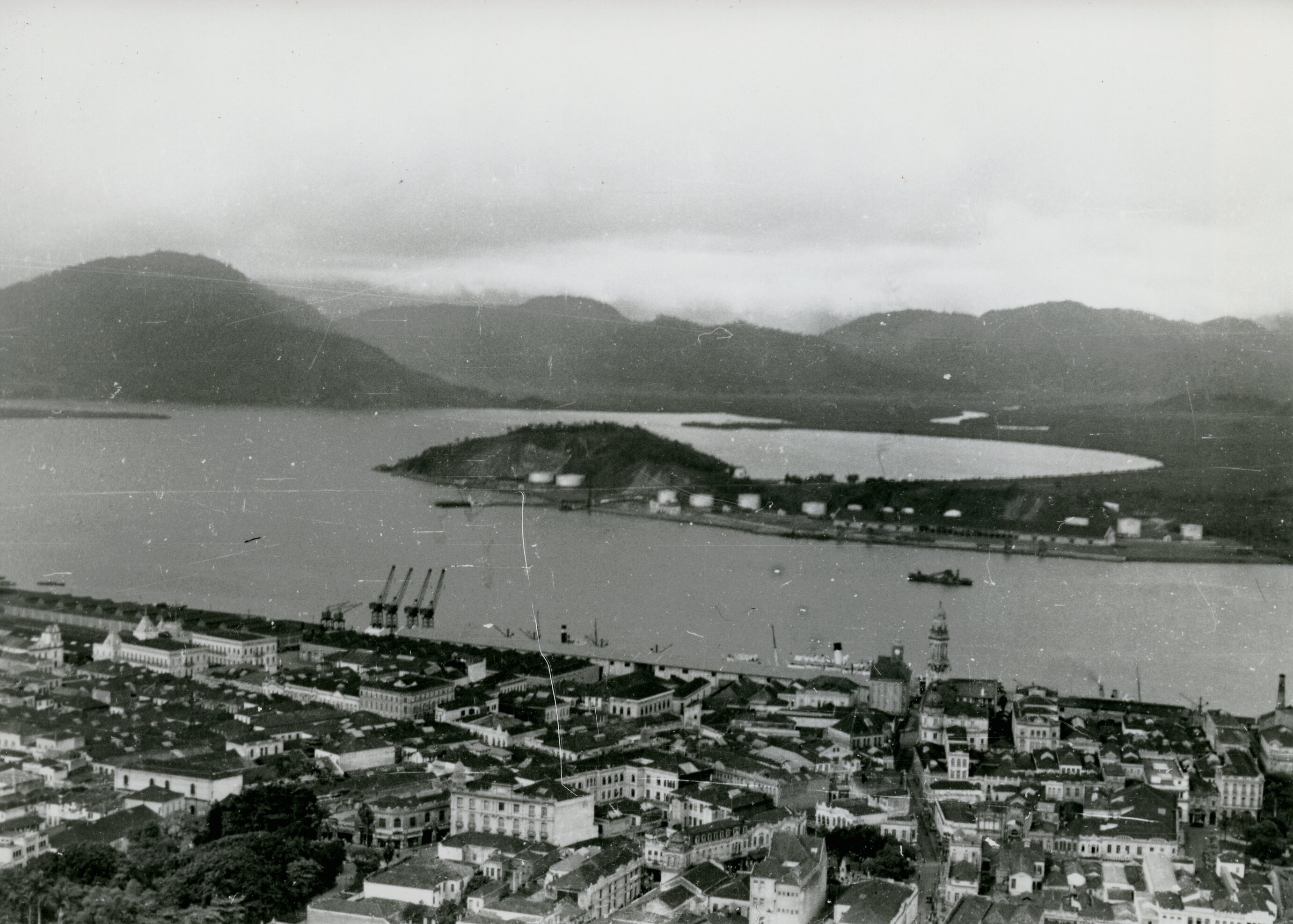 Monte Serrat, Santos - São Paulo, Brasil. See also: Spraul, G.: "Vom Fähnlein zur Fahne in den Tod", ISBN 978-3-86634-502-7, p. 297ff